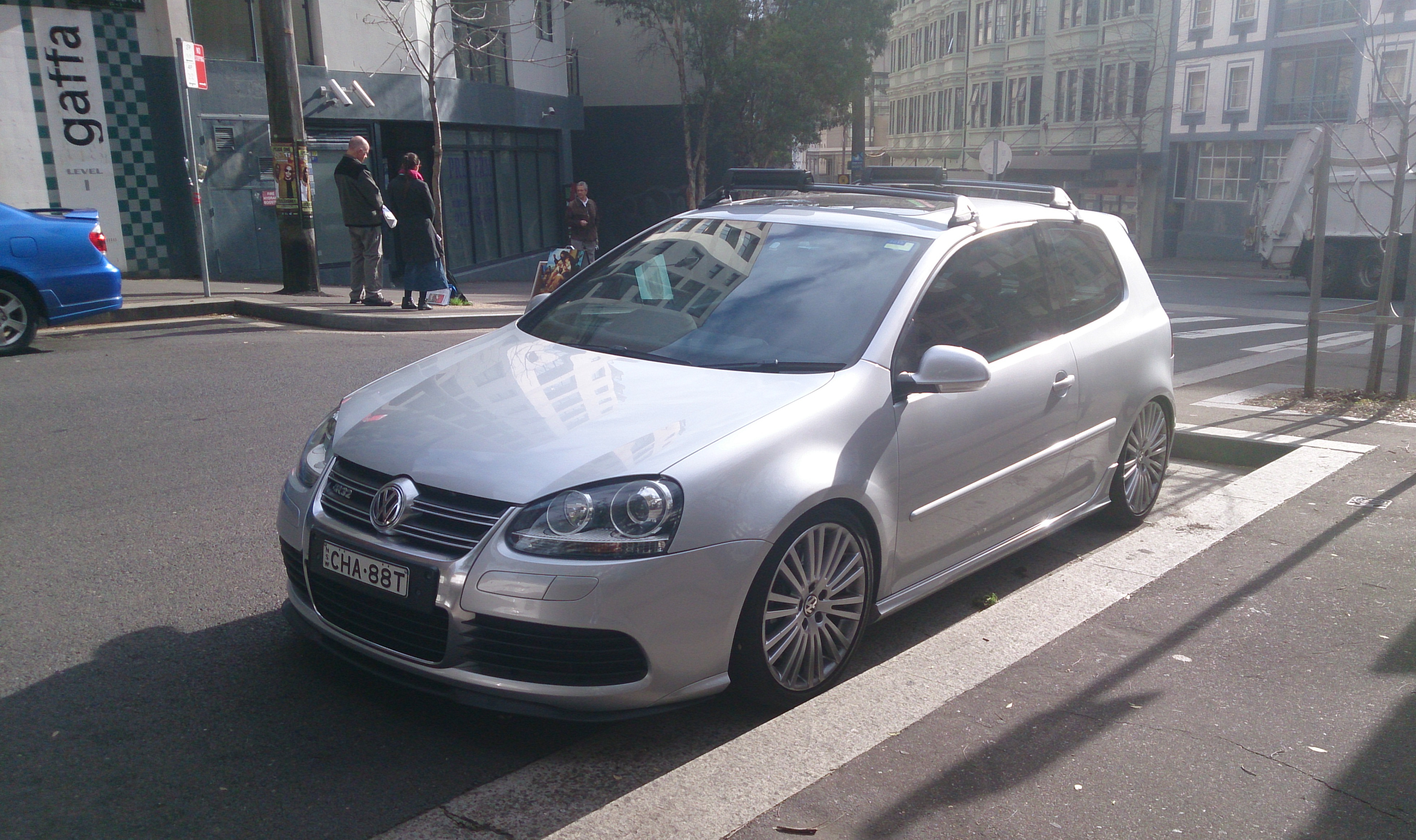 VW Golf R32